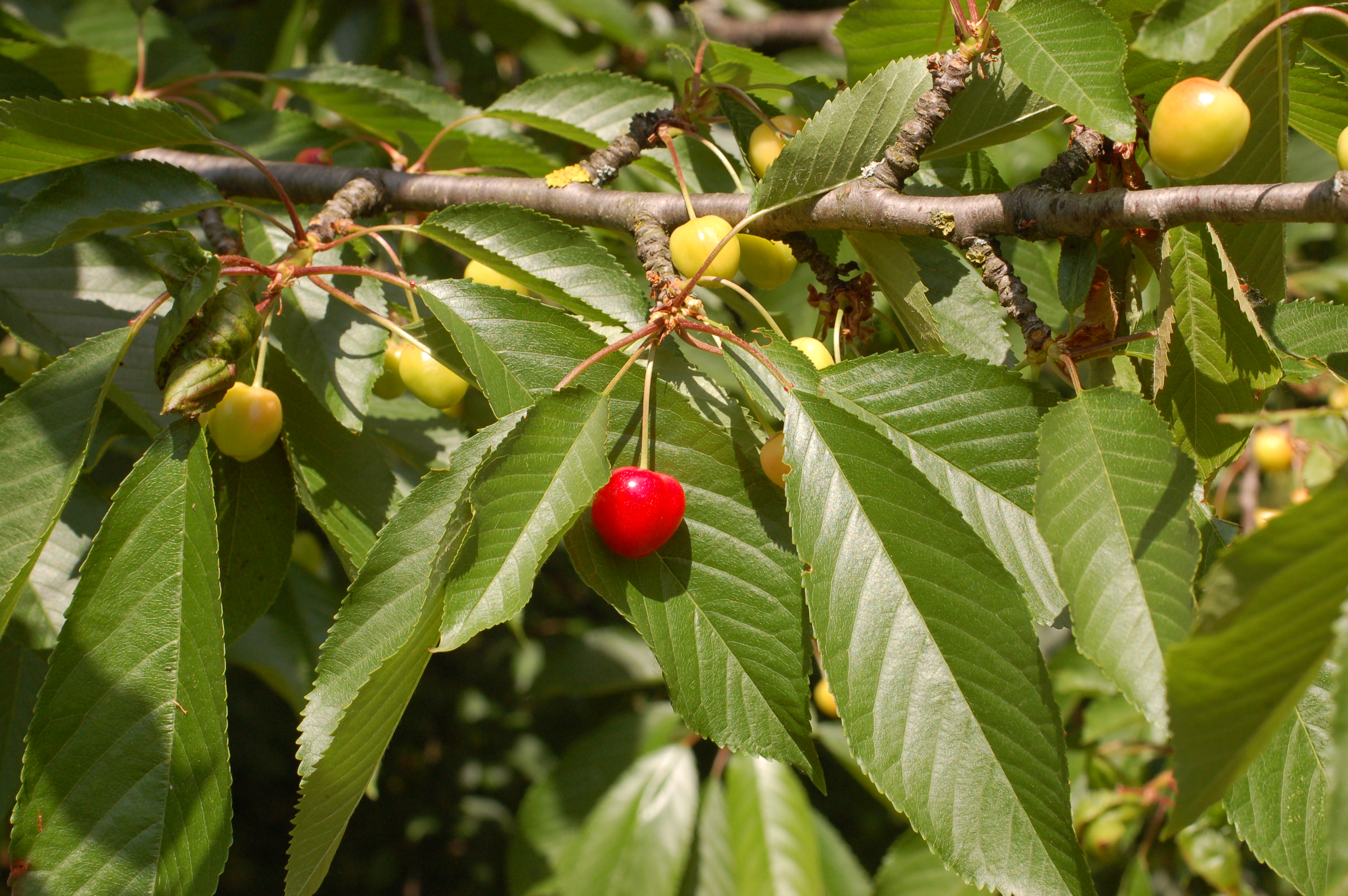 sweet cherries